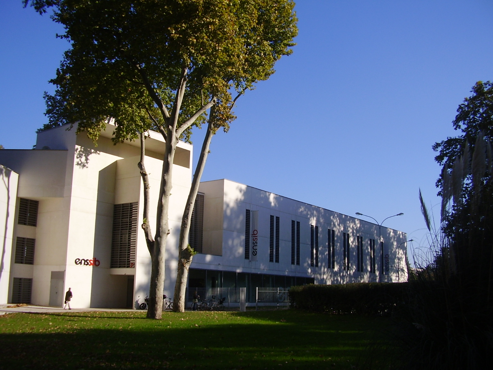 The École nationale supérieure des sciences de l'information et des bibliothèques (Librarian school) in Villeurbanne, near Lyon (France)